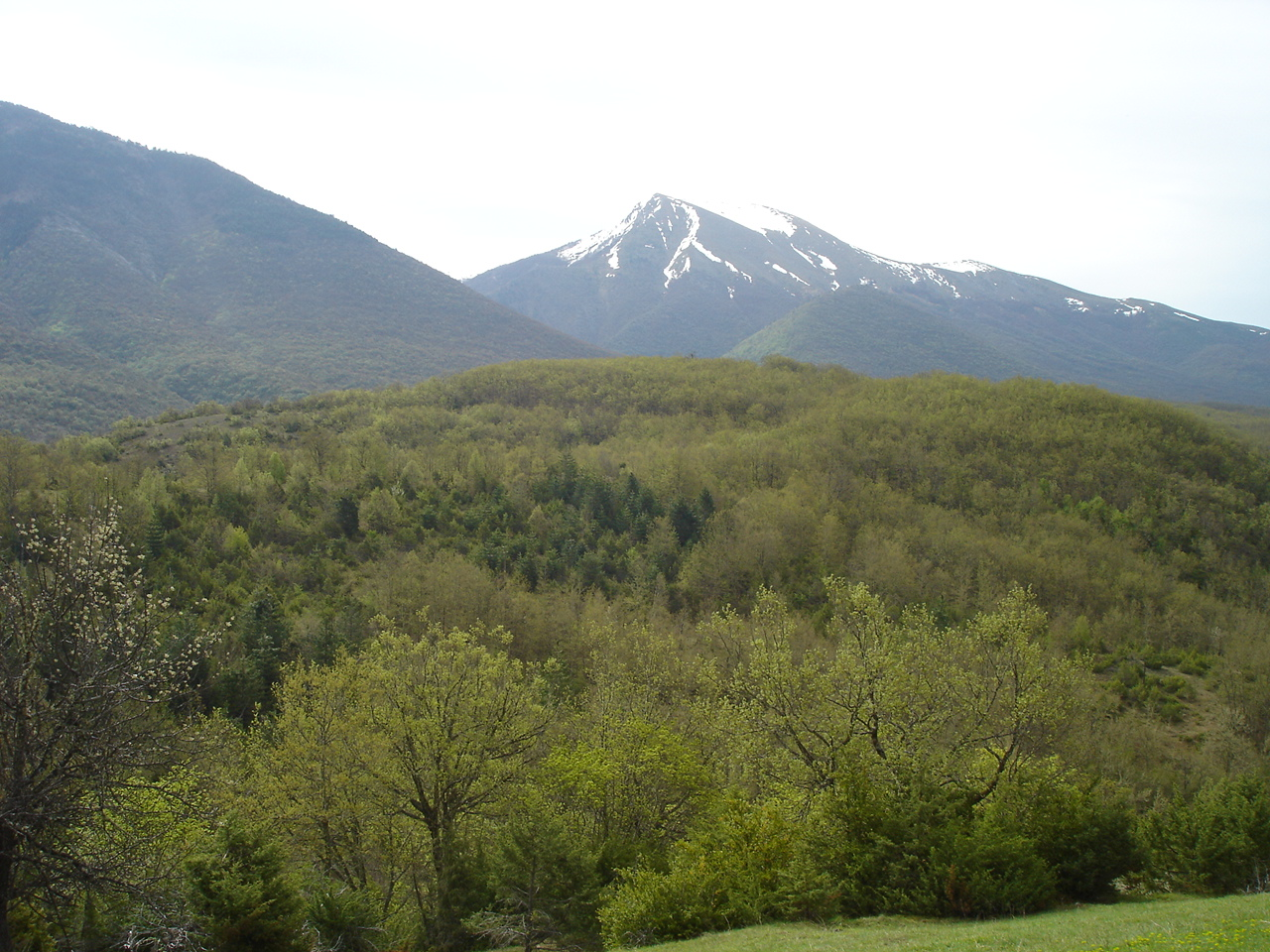 Mountain Dautica with Bel Kamen peak in Poreche region, Macedonia